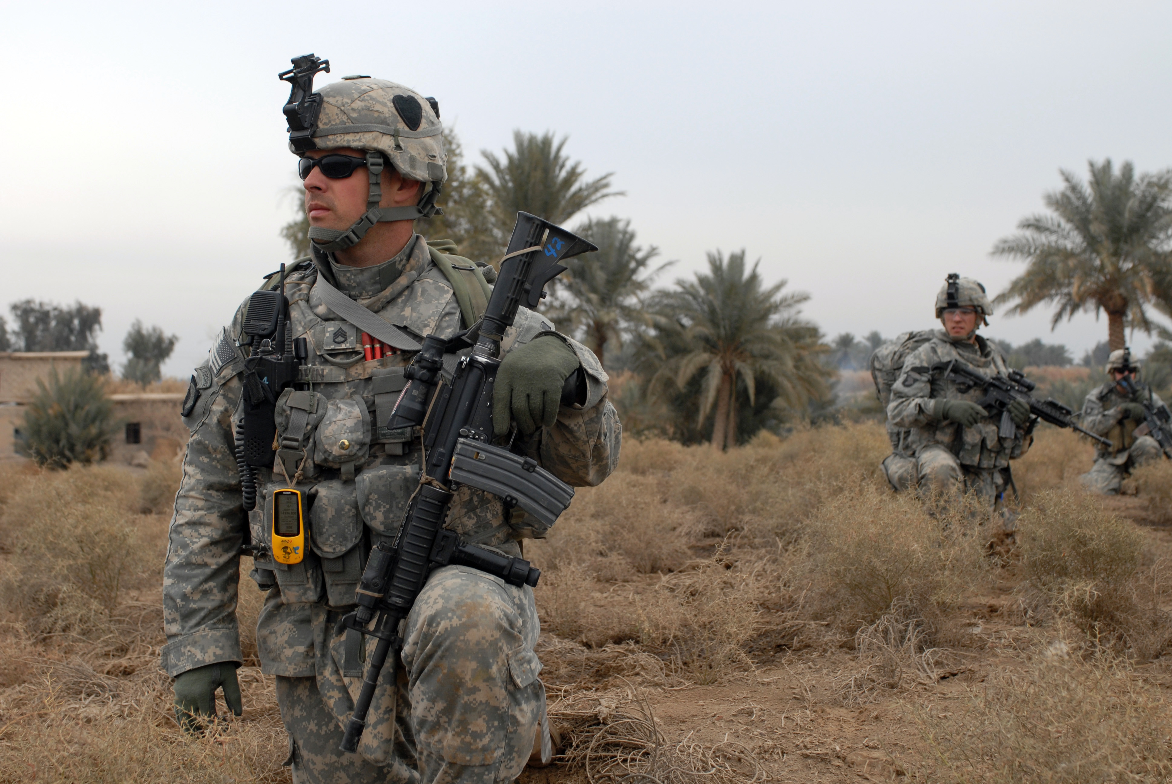 BAGHDAD (Jan. 10, 2008) U.S. Army Soldiers from Charlie Company, 2nd Battalion, 502 Infantry Regiment, 101st Airborne Division, take point during Operation NANNO II. The U.S. Army-led mission focused on clearing Al Qaeda operatives out of a south Baghdad neighborhood. U.S. Navy photo by MC2 Petty Officer Kim Smith (Released)